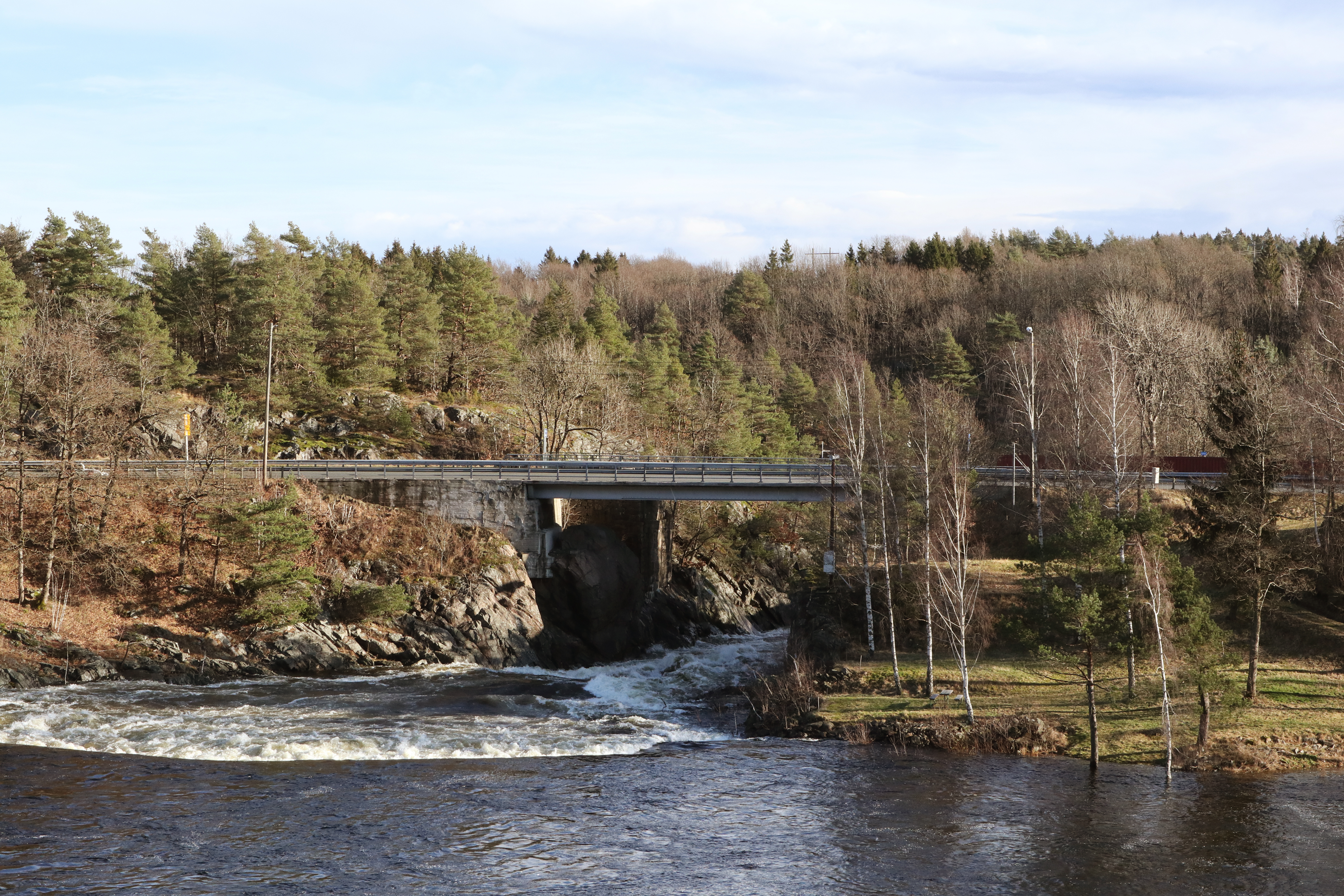 A river and a bridge by Rygene in Arendal